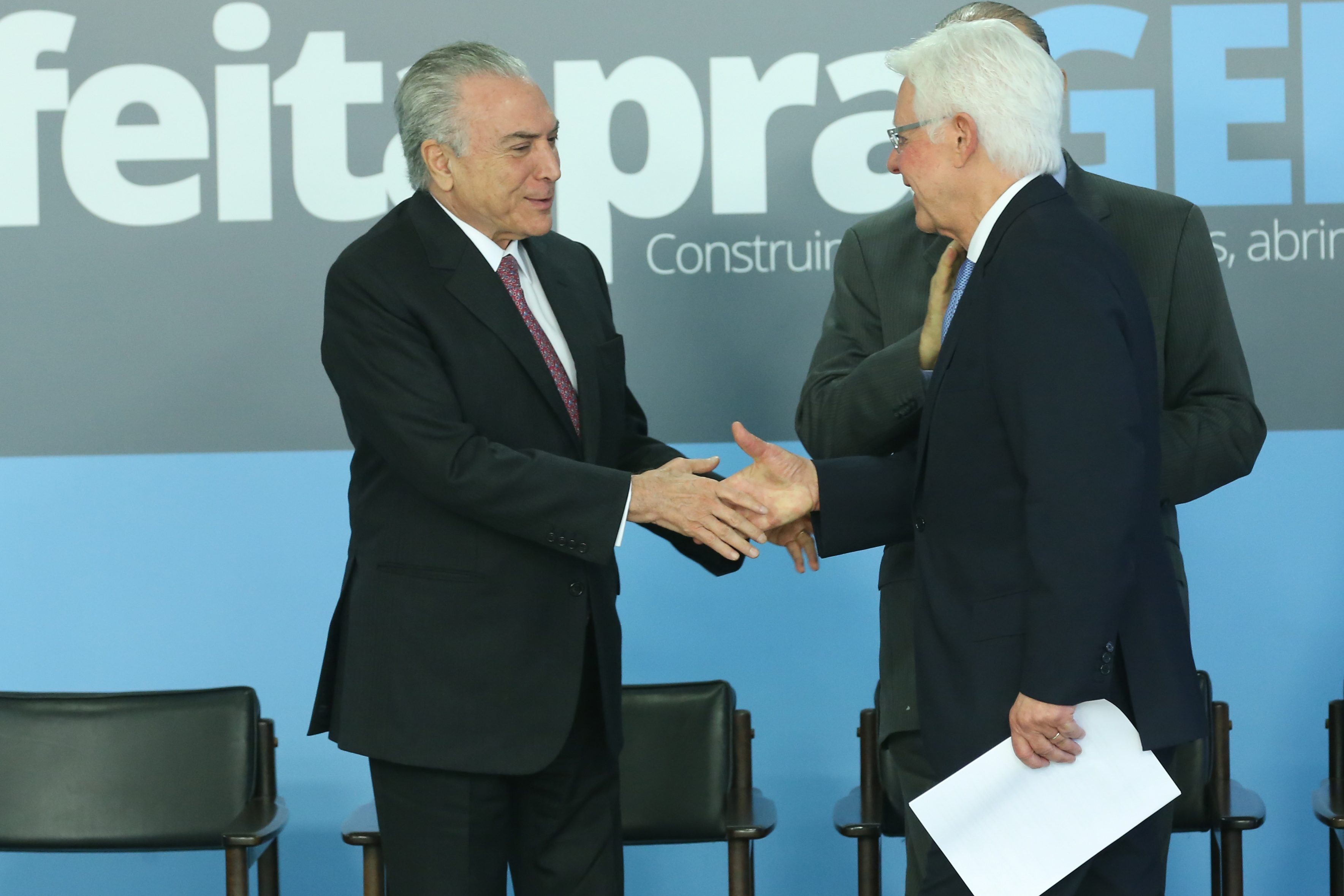 Brasília - O presidente Michel Temer e o ministro Moreira Franco durante cerimônia de assinatura de contratos de concessões dos aeroportos de Fortaleza, Porto Alegre, Salvador e Florianópolis (Antonio Cruz/Agência Brasil)